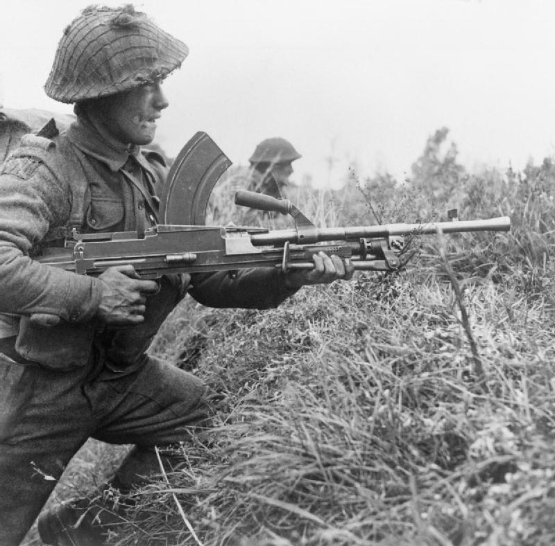 A Bren gunner of 8th Royal Scots at Moostdijk, 6 November 1944.